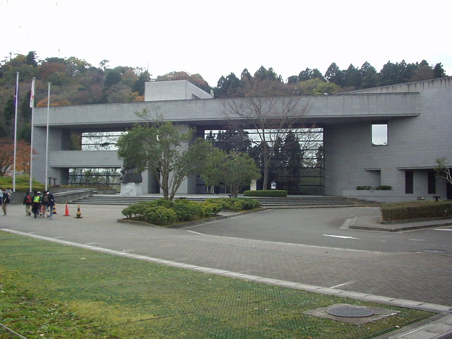 Sendai City Musium. Sendai, Miyagi prefecture, Japan.